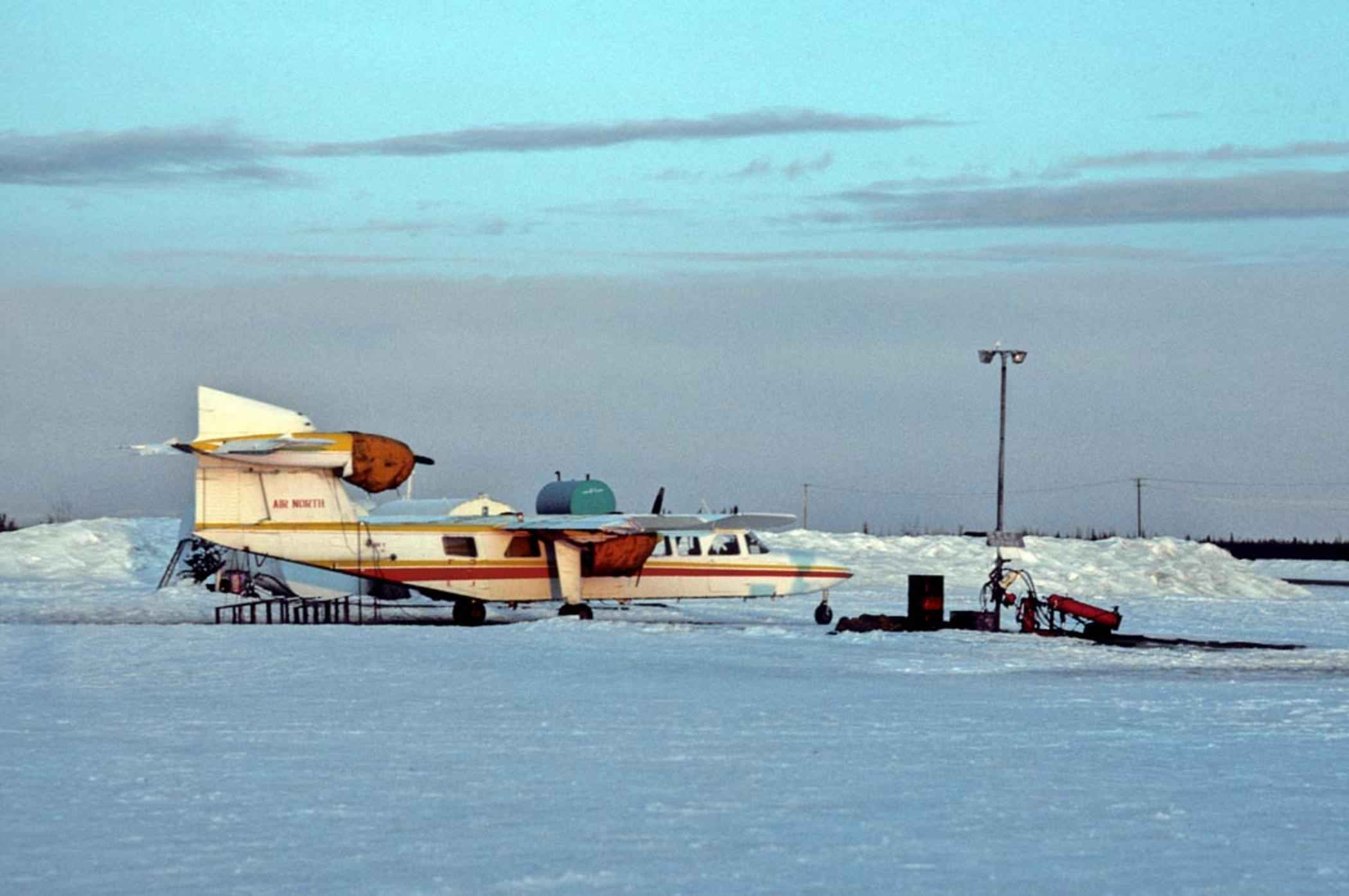 Image title: Air north airplane in winter Image from Public domain images website